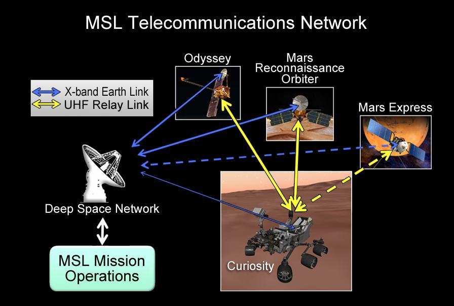 This chart illustrates how NASA's Curiosity rover talks to Earth. While the rover can send direct messages, it communicates more efficiently with the help of spacecraft in Mars orbit, including NASA's Odyssey and Mars Reconnaissance Orbiter, and the European Space Agency's Mars Express. (In the diagram, "MSL Mission Operations" stands for "Mars Science Laboratory Mission Operations".)